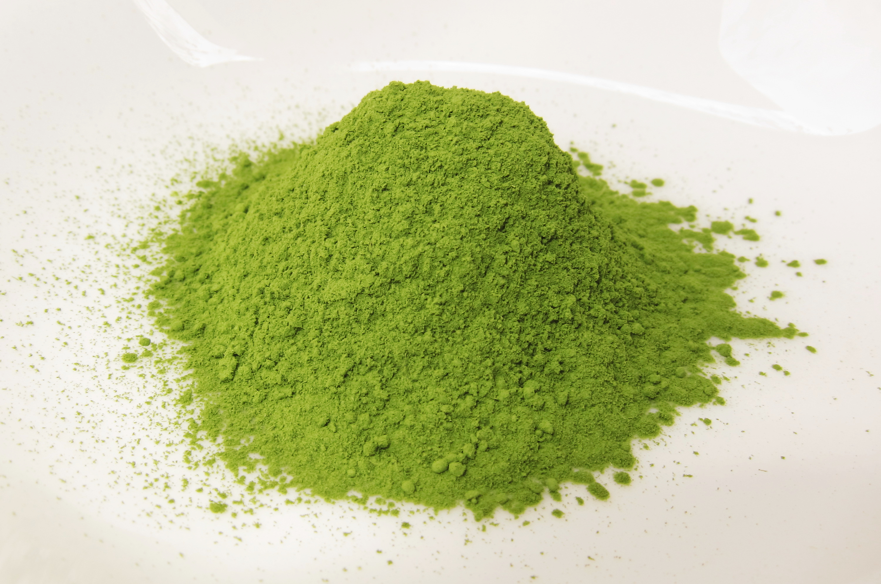 Matcha, a fine powdered green tea. Credit when using this picture.